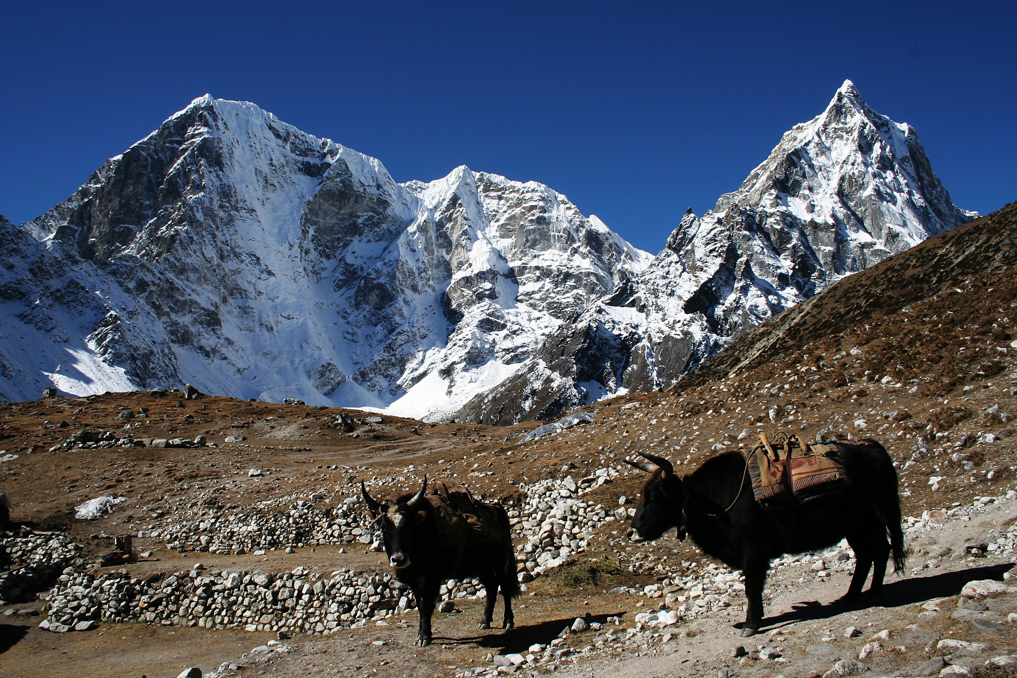 Some kind of yaks at Douglha. The mountains are Taboche (left) and Cholatse (right)